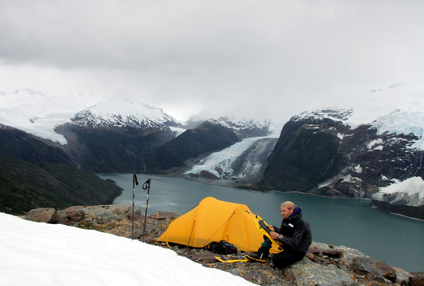 Christian Clot at the begening oh his Darwin range's expedition